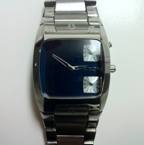 This is a picture of one of Nixon's watches, called "The Banks". It has a dark blue background.